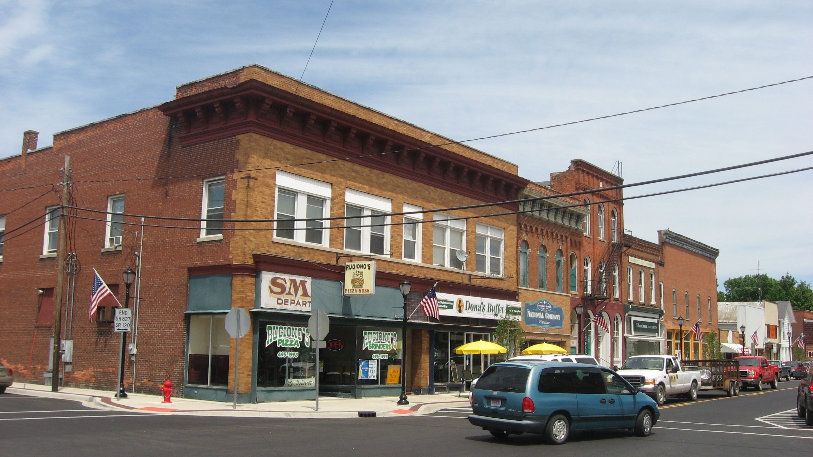 Buildings on the northern side of the 100 block of E. Toledo Street (State Road 120) in Fremont, Indiana, United States. From left ot right, the five brick buildings are: 101 E. Toledo: Unnamed commercial building, built in 1890, Italianate style 105 E. Toledo: Unnamed commercial building, built in 1890, Italianate style 107 E. Toledo: Oddfellows' Hall, built in 1870, Italianate style 109 E. Toledo: Unnamed commercial building, built in 1870, Italianate style 111 E. Toledo: Knights of Pythias Hall, built in 1870, Italianate style This block is part of the locally designated Fremont Commercial Historic District.